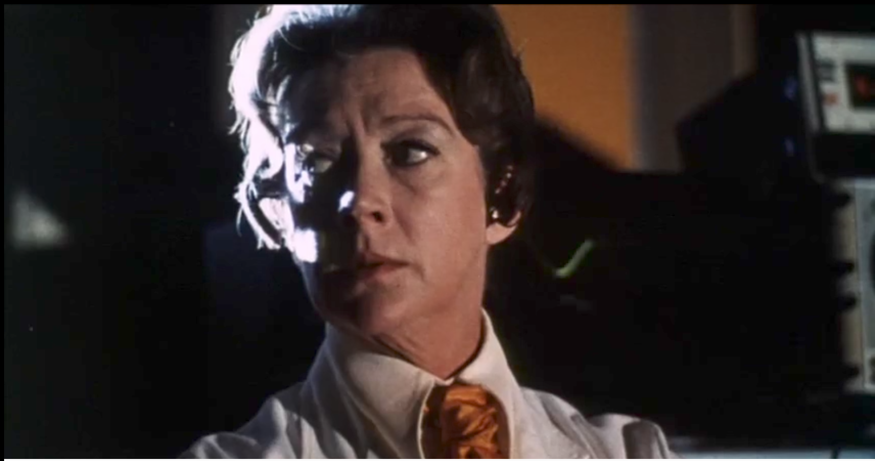 Madge Ryan in the trailer for A Clockwork Orange